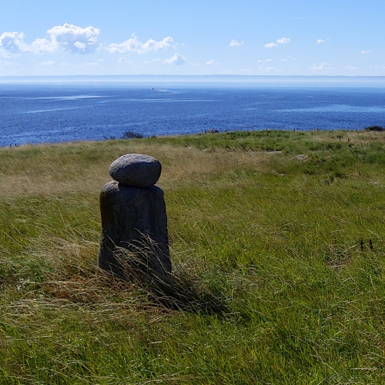 An archaeological statue presumably from the Viking age. Located on the island of Tylön 400 meters offshore from Tylösand near Halmstad om Swedens Southern West coast.